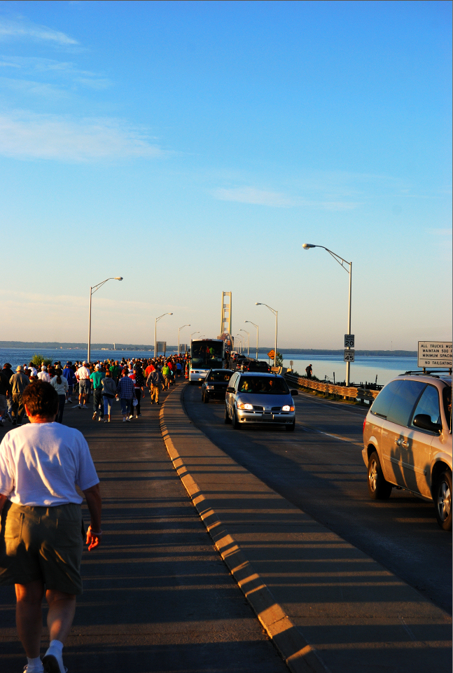 Mackinac Bridge Walk 2008 (Labor Day) from St Ignace to Mackinaw City Upload Intended for Wikipedia